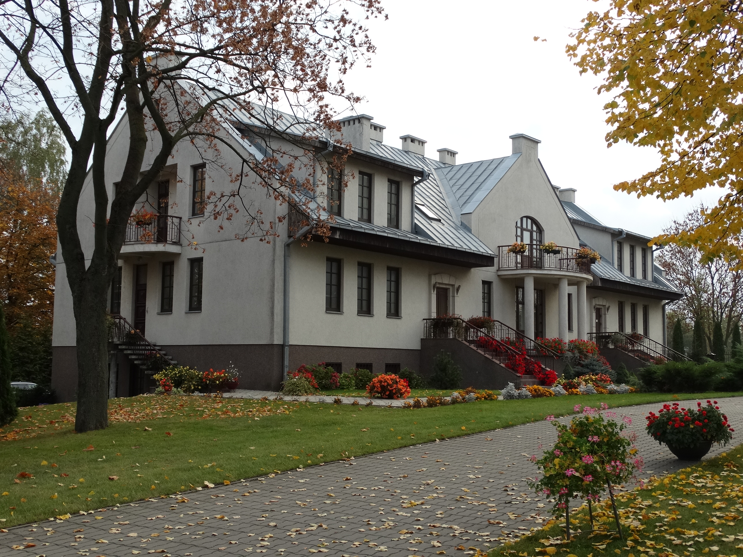 Clergy house, Church of Saint Mary's Visitation in Vilkaviškis, Lithuania